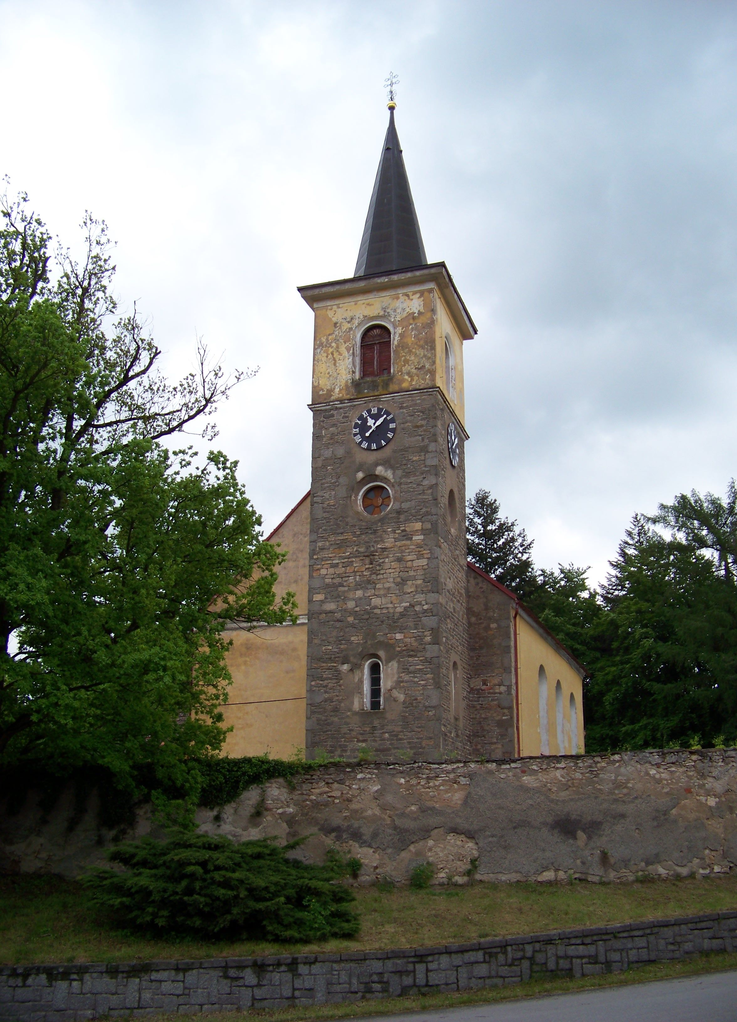 Vrchotovy Janovice, Benešov District, Central Bohemian Region, the Czech Republic. Saint Martin Church.